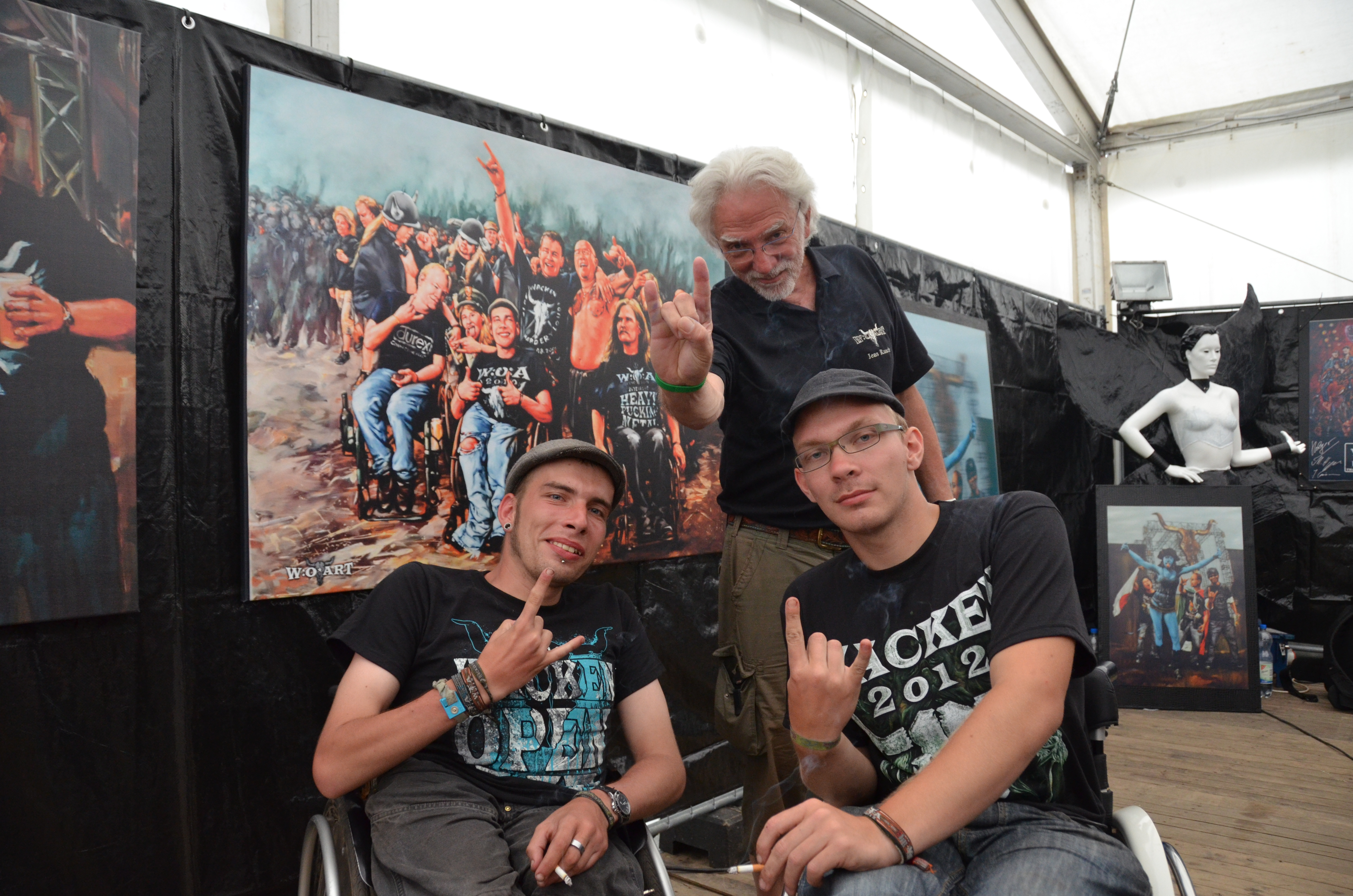 Jens Rusch with two models at Wacken Open Air 2012